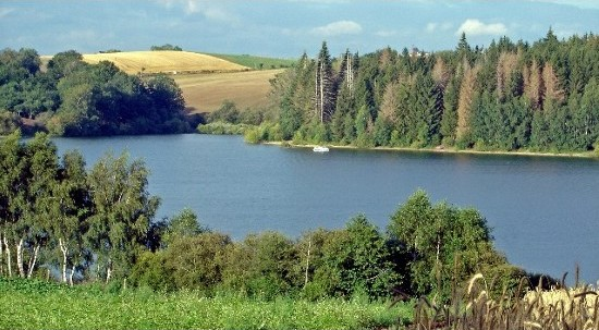 the village of Saint-Martin-des-Faux is on the territory of the communes of Arvieu and Salles-Curan